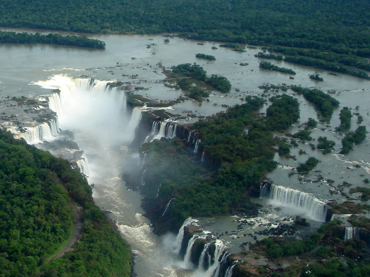 Iguazu Falls, in the Brazil (left) - Argentina (right) border